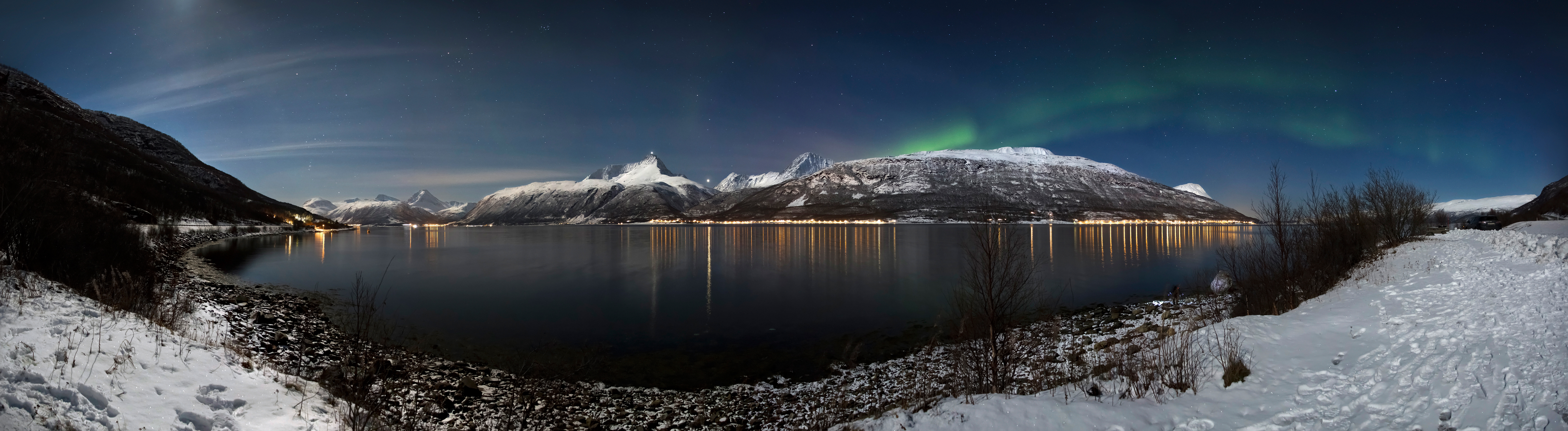 A wide view over Storfjorden (a part of Lyngen fjord) in a winter night in 2012 March. Some Aurora borealis (known as the northern lights) are running across the sky. The summits lighted by the Moon on the other side of the fjord belong to the Lyngen Alps (Lyngsfjellan). Also the planets Jupiter and Venus are quite near to each other (the bright dots, center left).